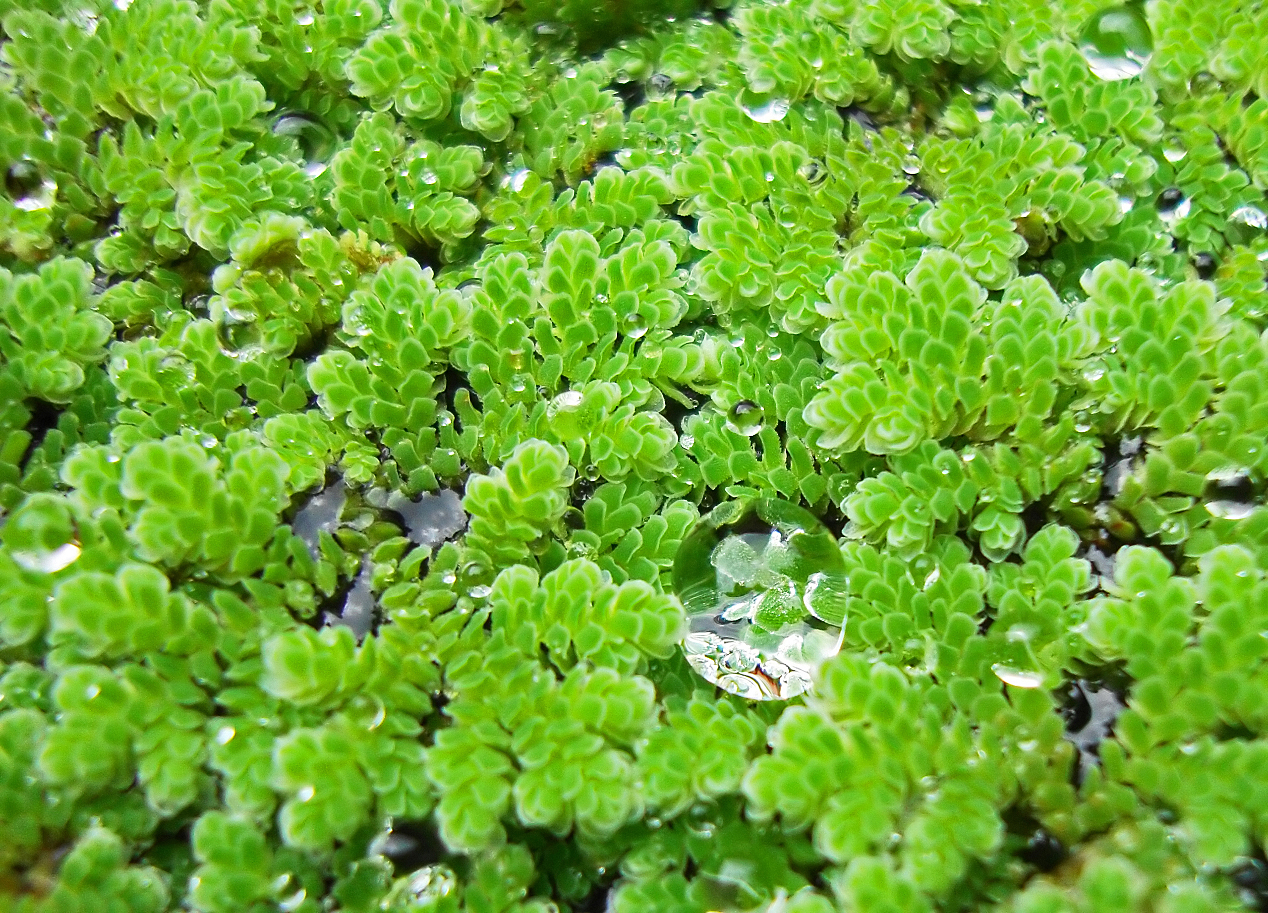 Azolla caroliniana